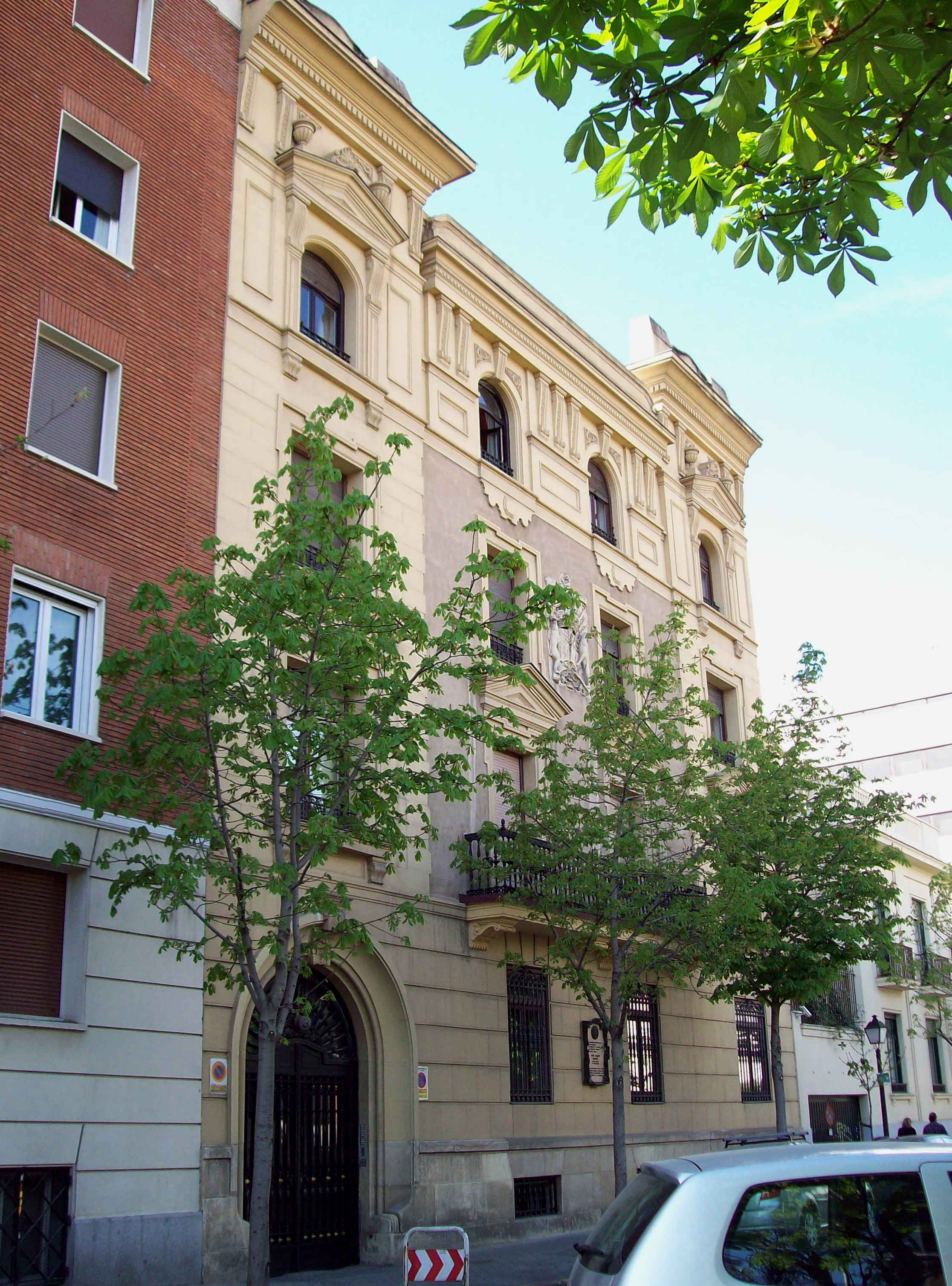 Building at 38 Calle de Padilla (street) in Salamanca district in Madrid (Spain). It was designed as a mansion by architect Bernardo Giner de los Ríos and built in the 1920's. Writer Juan Ramón Jiménez lived in it from 1929 to 1936.